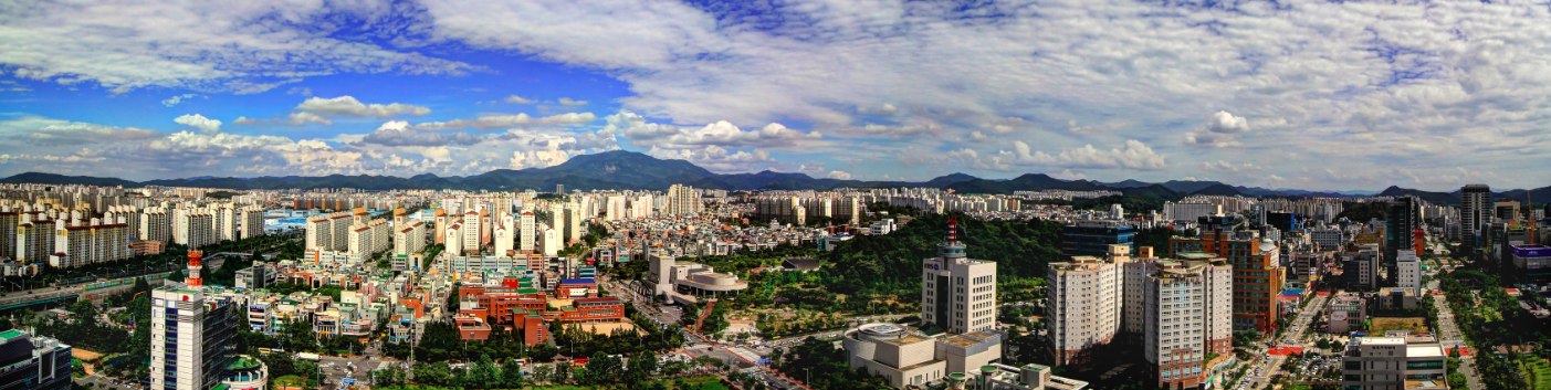 A view of downtown Gwangju from Gwangju City Hall